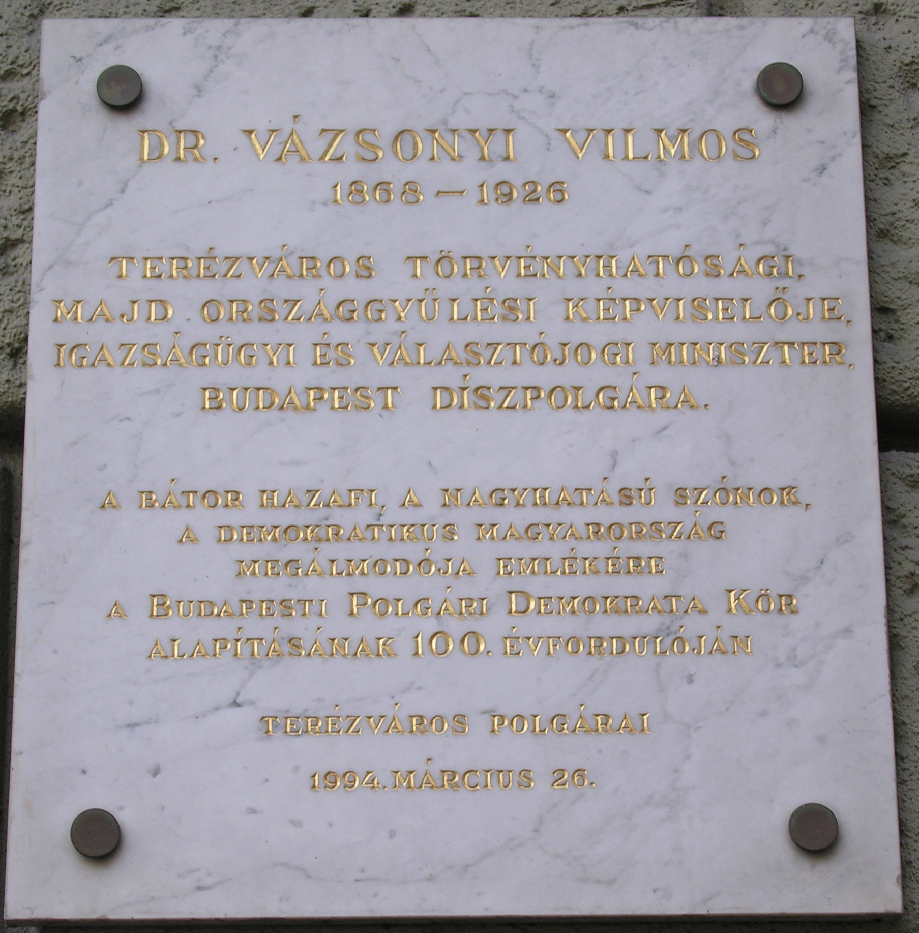 Vilmos Vázsonyi commemorative plaque in Budapest District VI, Teréz Boulevard No 24